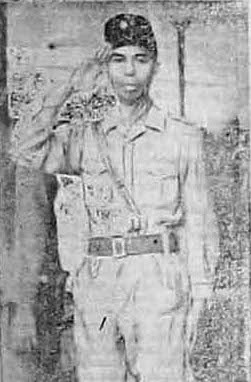 General Sudirman, saluting upon being sworn in (again)